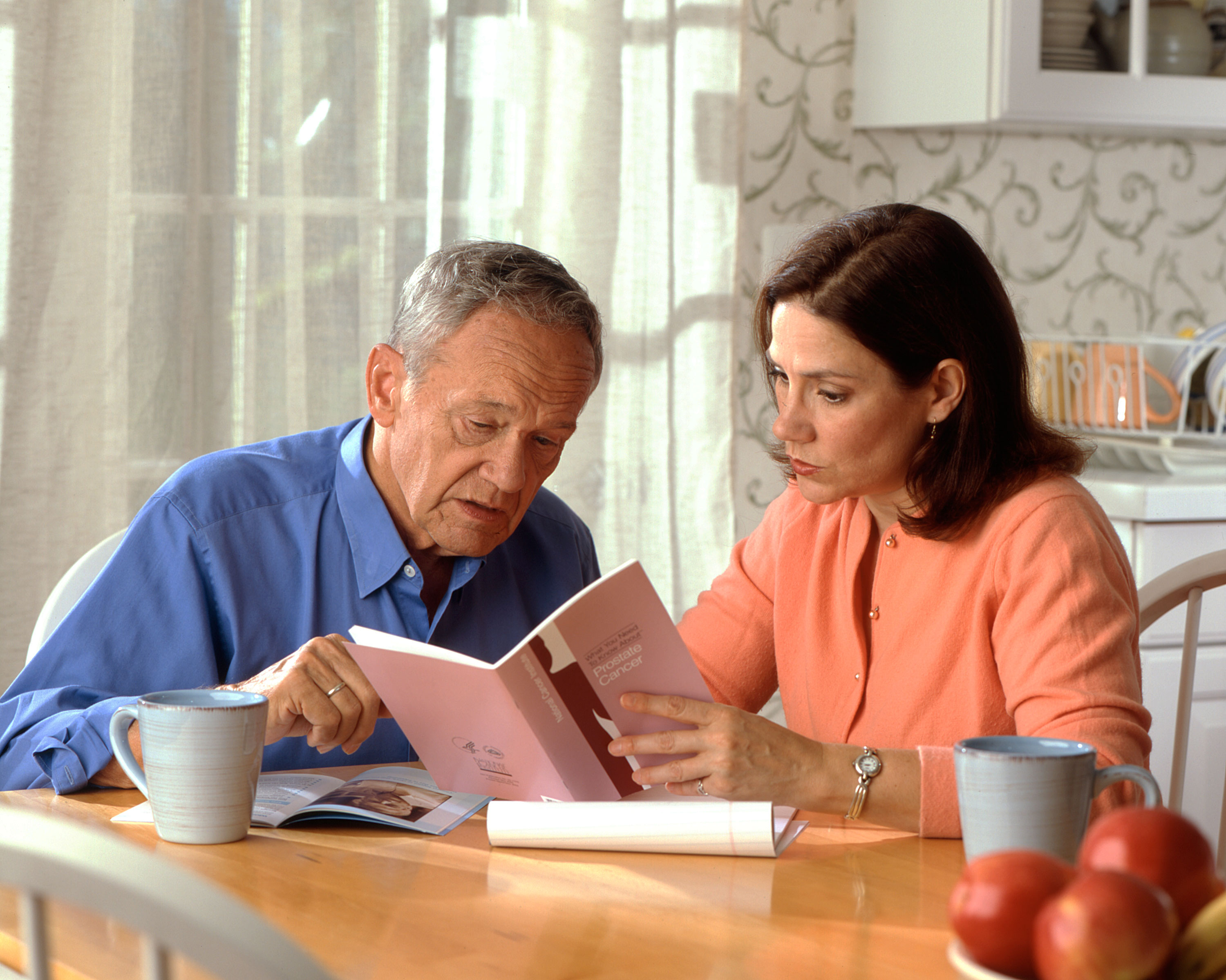 Title Discussing Cancer Description An adult Caucasian woman talks to an older Caucasian man about cancer while sitting at a kitchen table. Topics/Categories People -- Adult People -- Family/Friends Type Color, Photo Source National Cancer Institute